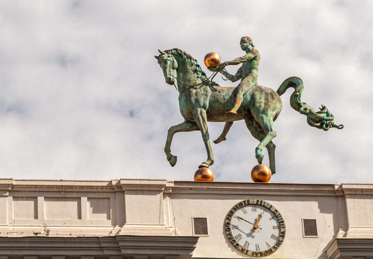 This sculpture is on top of the Granada City Hall.